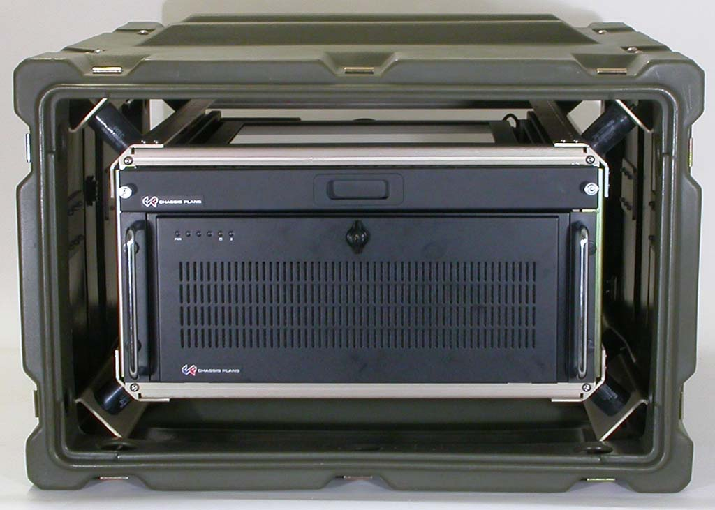 Rackmount Transit Case Author: David Lippincott for Chassis Plans url: I am the author and release this image into the public domain.